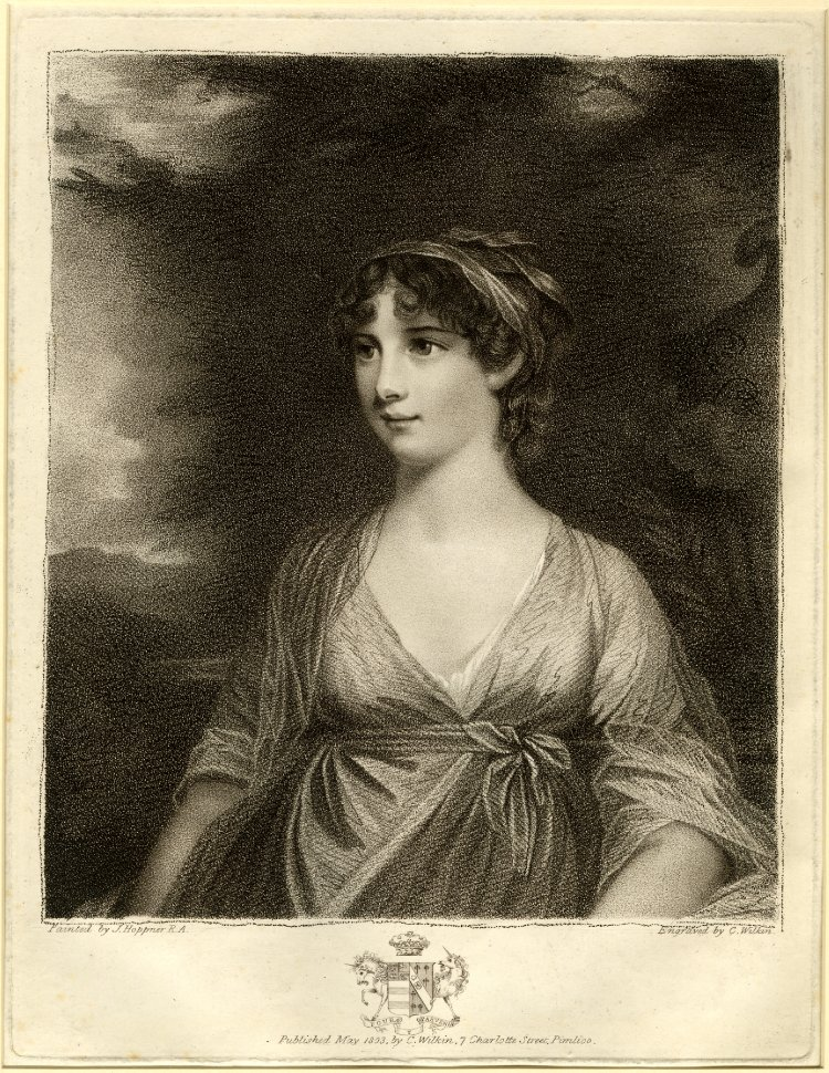 Ladies of Rank and Fashion / The Duchess of Rutland, Elizabeth Howard, daughter of Frederick Howard, 5th Earl of Carlisle, wife of John Manners, 5th Duke of Rutland